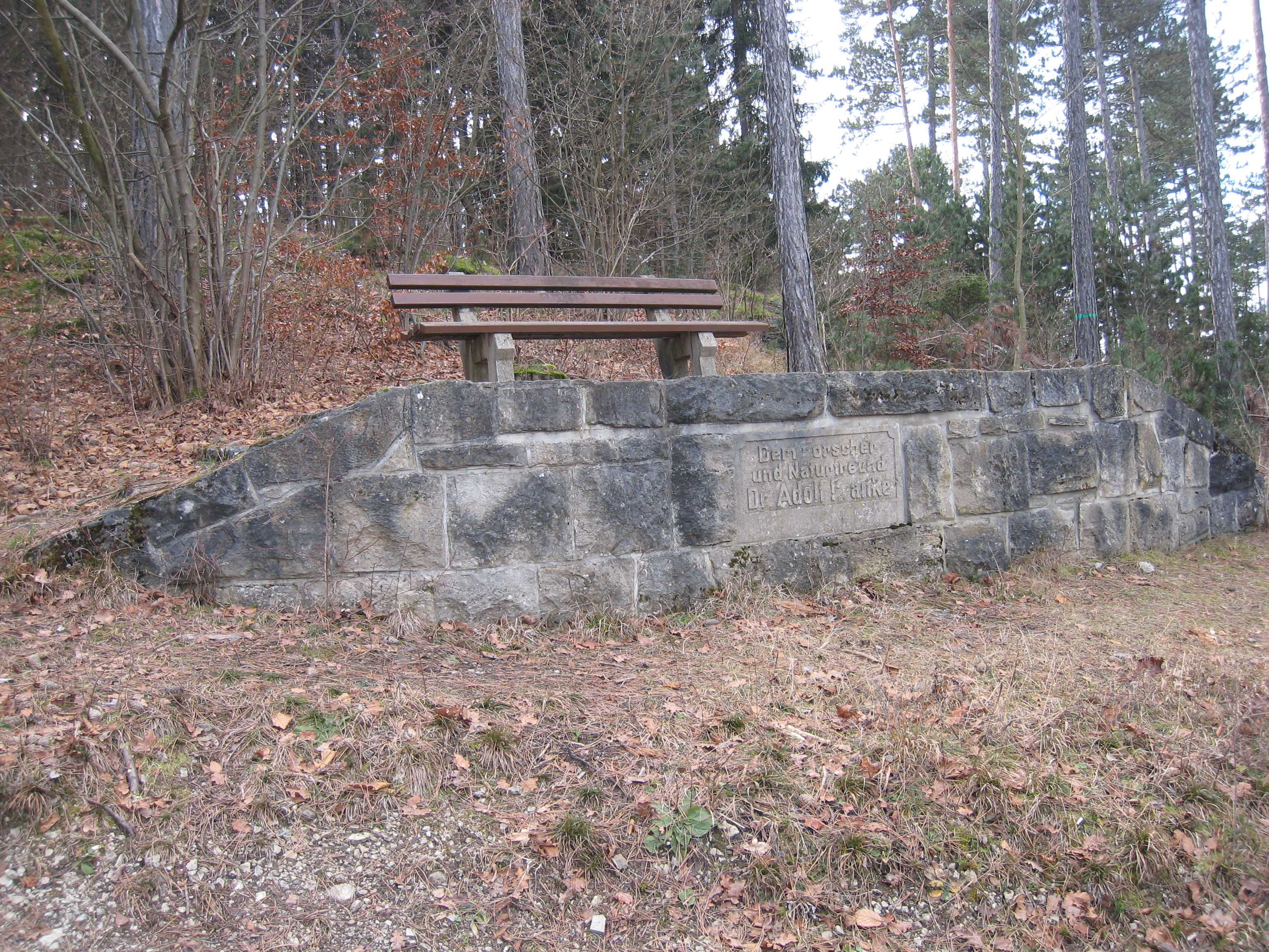 Frankebank in honour of Adolf Franke, Arnstadt